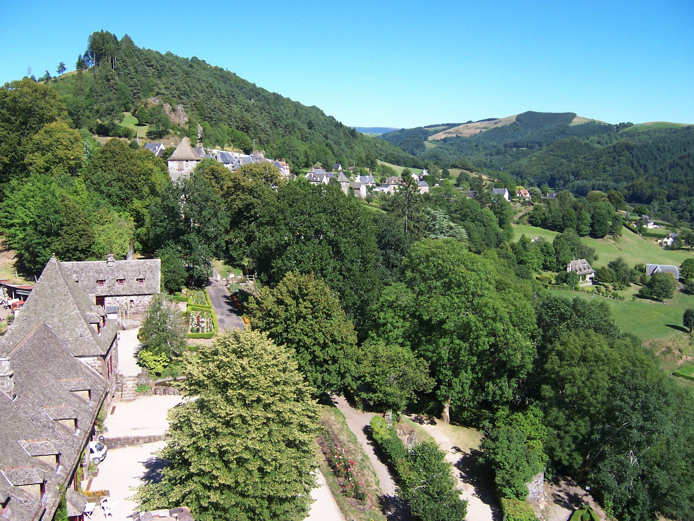 The village of Tournemire (Cantal - France) seen from the top of the castle of Anjony Photo : B.navez - AUG 2005